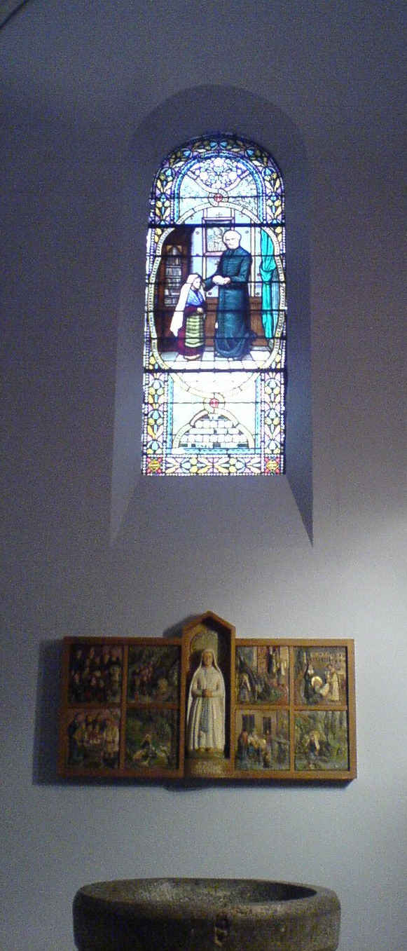 Stained glass window in the Parish Church, Lourdes, depicting the encounter between St. Bernadette and the priest Abbe Peyramale. At the bottom of the image is the baptismal font of the church, where Bernadette herself was baptised.